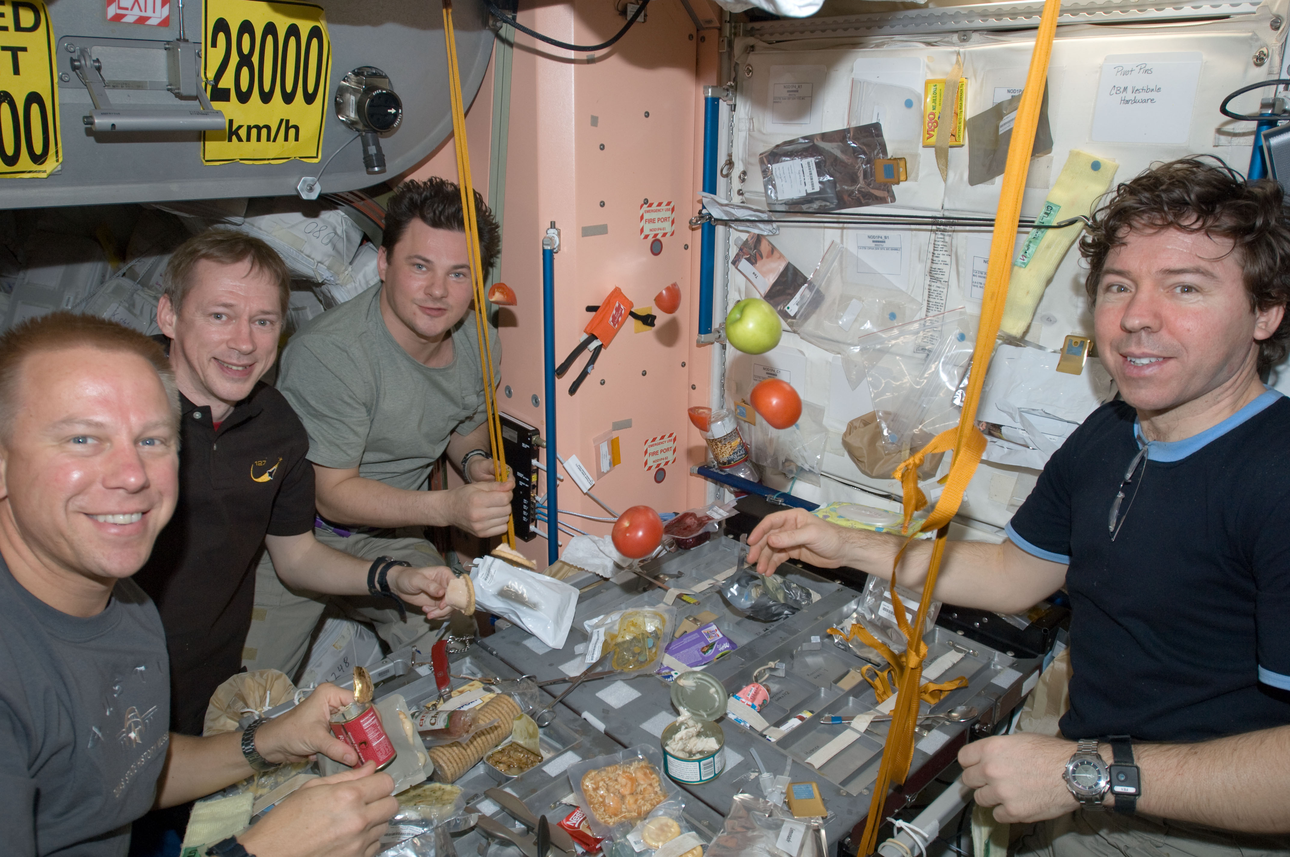 From left to right, National Aeronautics and Space Administration (NASA) astronaut Tim Kopra, European Space Agency astronaut Frank De Winne, cosmonaut Roman Romanenko and NASA astronaut Michael Barratt, all Expedition 20 flight engineers, share a meal at a galley in the Unity node of the International Space Station.